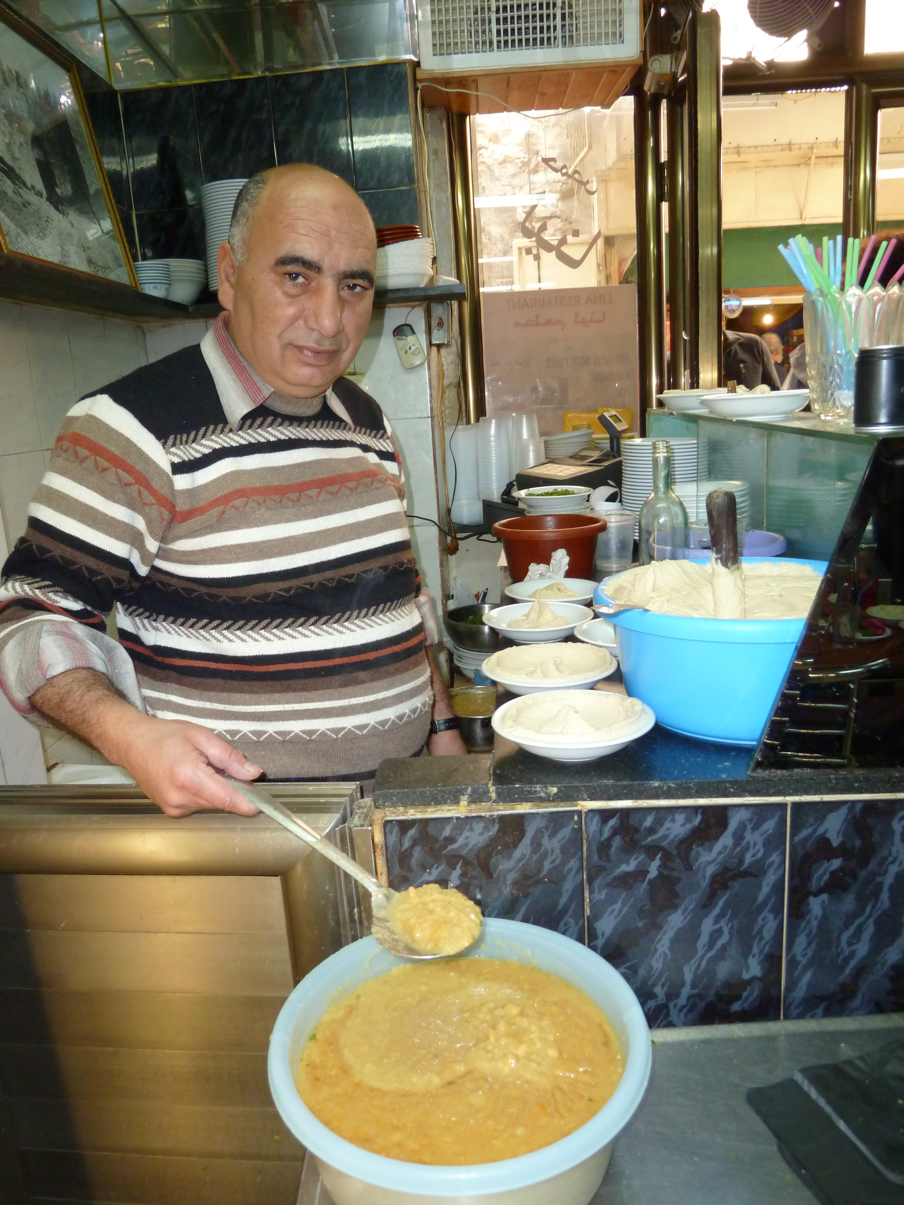 Hummus Lina, a Hummus place in the Old City, Jerusalem, El-Khanqa street 42